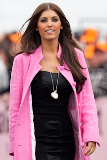 Giro d'Italia second stage in Amsterdam, rider presentation. Yolanthe is miss Giro. (Version for use on Wikipedia) Original (large) can be found at (Attribution-NonCommercial-ShareAlike 2.0 Generic license)